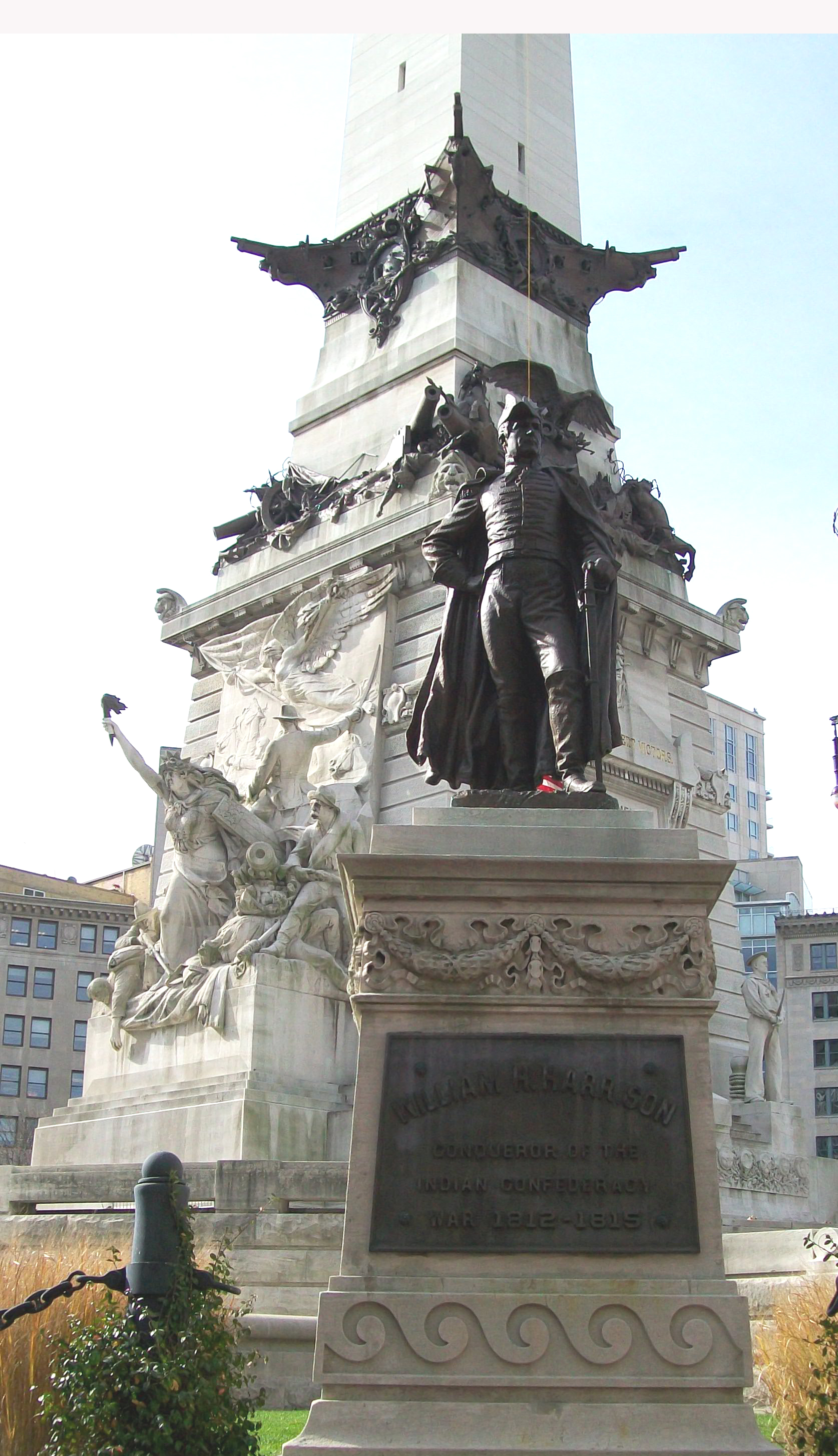 Statue of William Henry Harrison (1895) by John H. Mahoney, Soldiers' and Sailors' Monument (Indianapolis). Harrison was Governor of the Indiana Territory, Senator from Ohio, and ninth President of the United States.